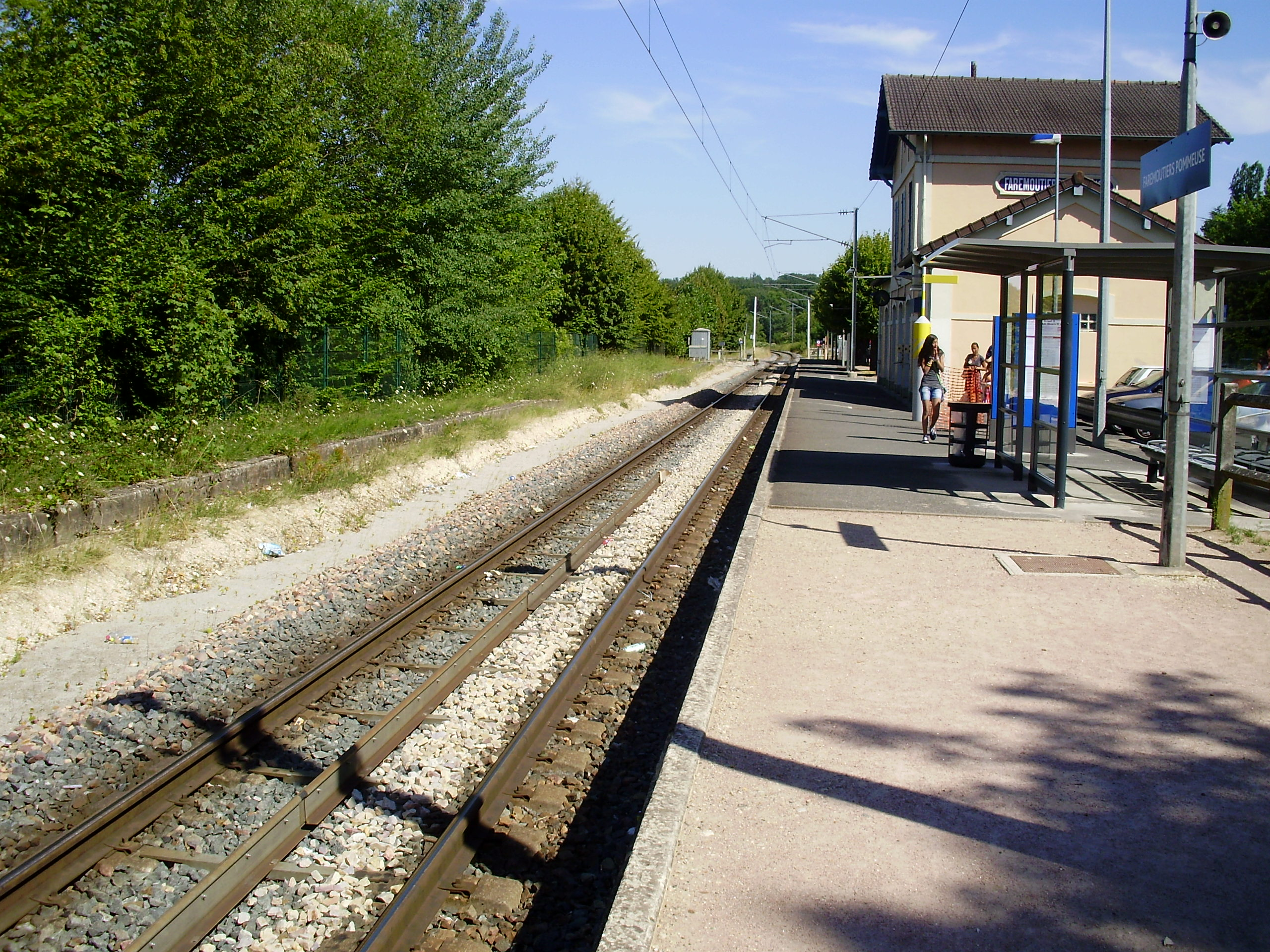 Faremoutiers - Pommeuse station, in Pommeuse, Seine-et-Marne, France (single platform with view toxards Coulommiers)